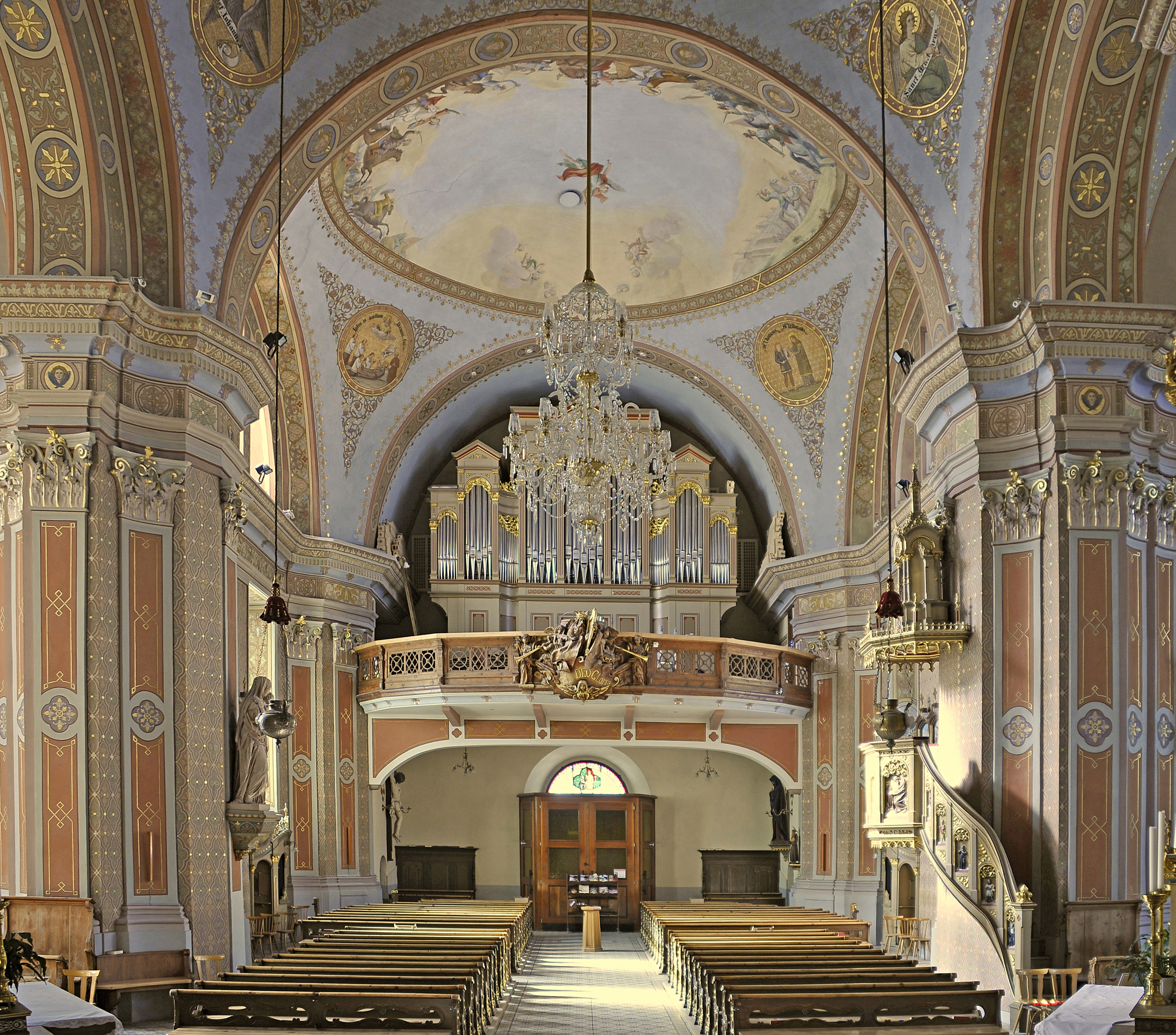 Parish Church of Urtijëi build in the second half of the 18th century